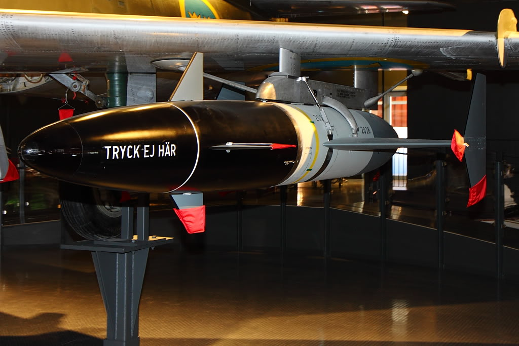 RB 04 anti ship missile on SAAB A32A Lansen at the Swedish Air Force Museum.